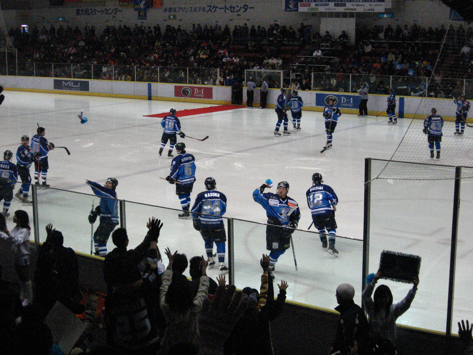 SEIBU Prince Rabbits to Japanese Ice Hockey Teams.